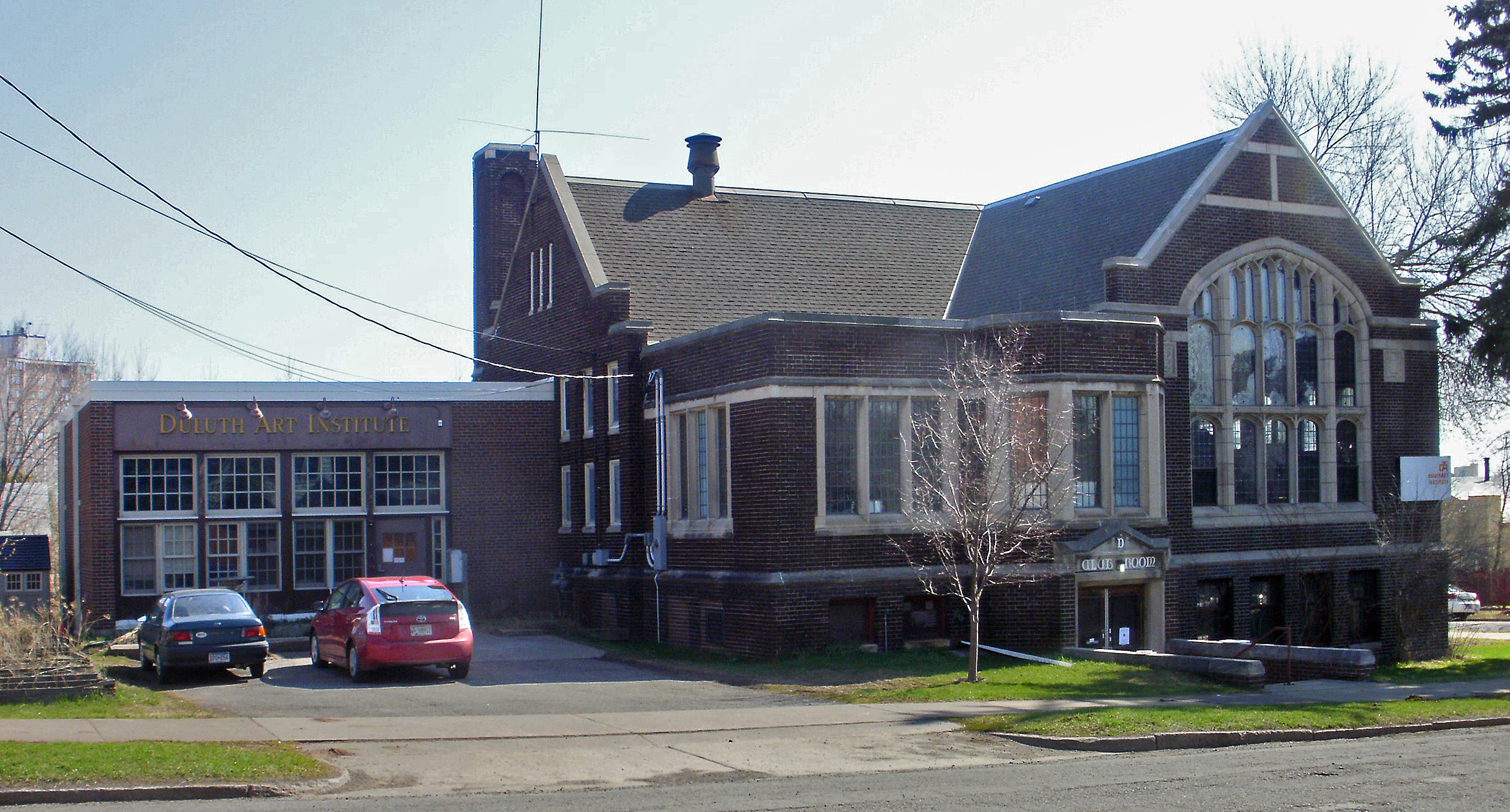 West corner of the NRHP-listed Lincoln Branch Library in Duluth, Minnesota.